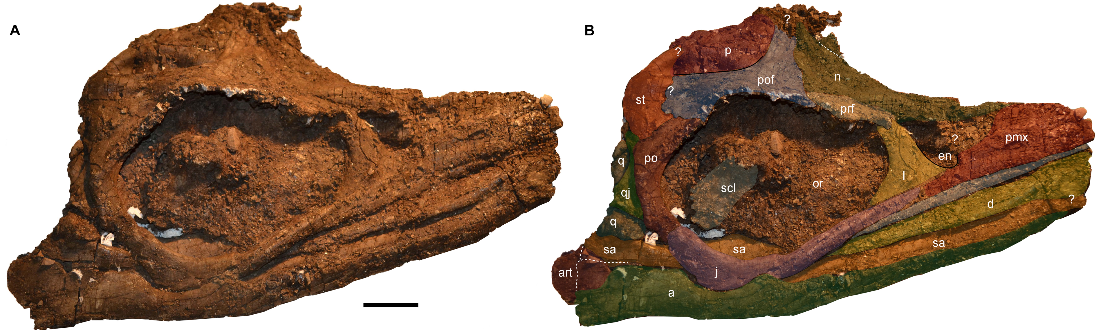 The skull of Janusaurus lundi (PMO 222.654). A: Photo in right lateral view of the skull. B: Right lateral view with interpretation of the individual elements. Abbreviations: a, angular; art, articular; d, dentary; en, external naris; j, jugal; l, lacrimal; mx, maxilla; n, nasal; or, orbit; p, parietal; pmx, premaxilla; po, postorbital; pof, postfrontal; prf, prefrontal; q, quadrate; qj, quadratojugal; sa, surangular; st, supratemporal. Scale = 5 cm.